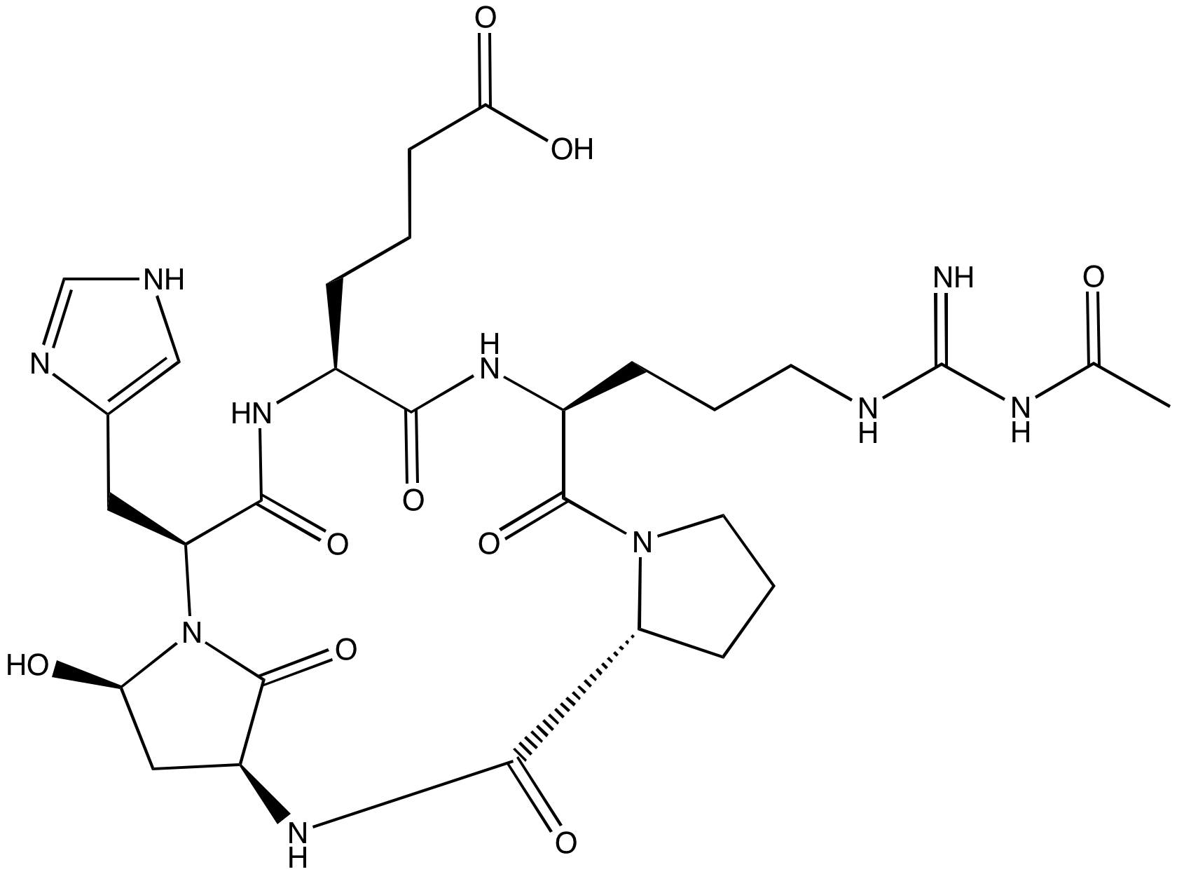 Structure of argadrin